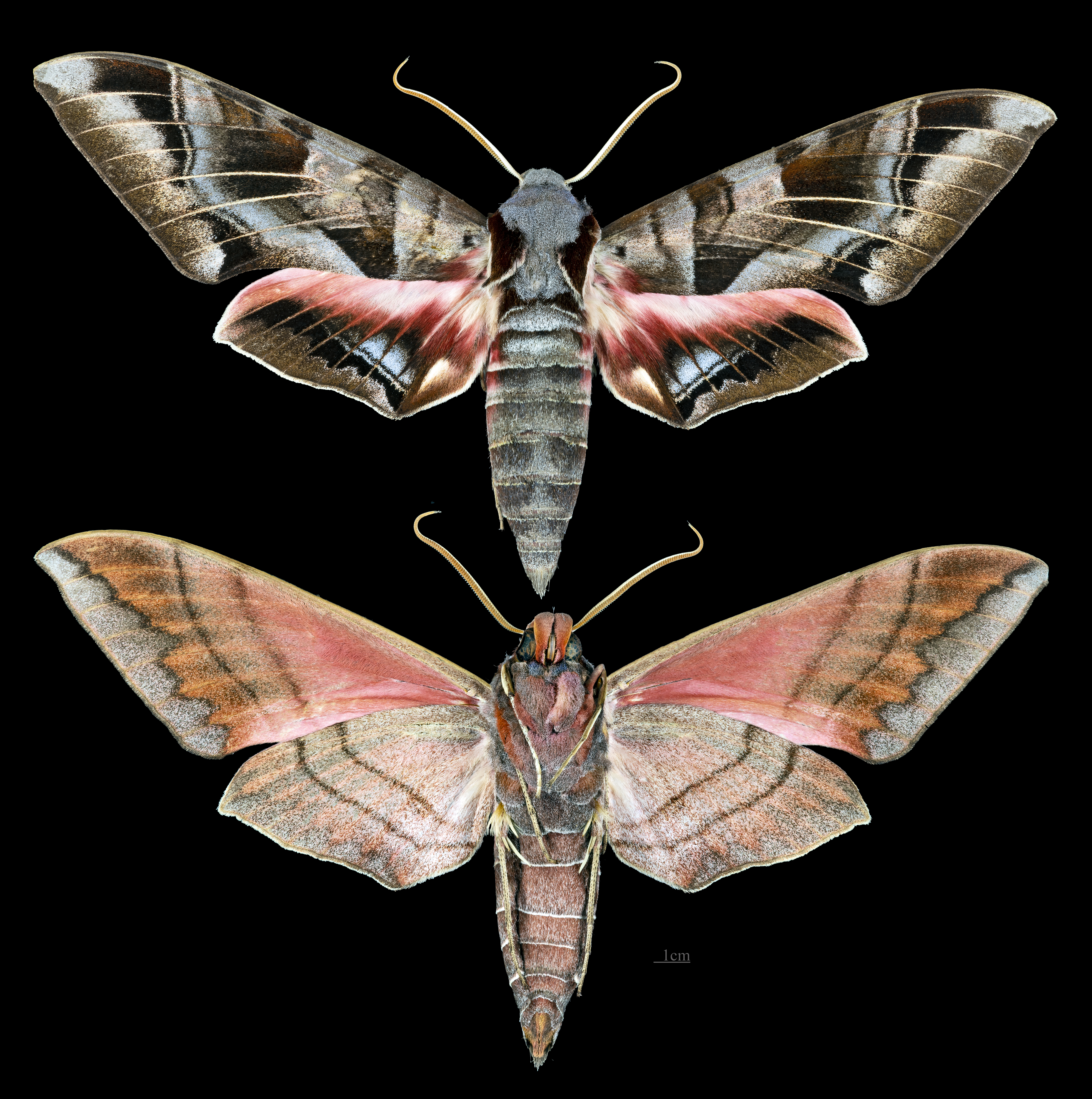 Eumorpha typhon - Two views of same specimen Collection of the Mathematician Laurent Schwartz